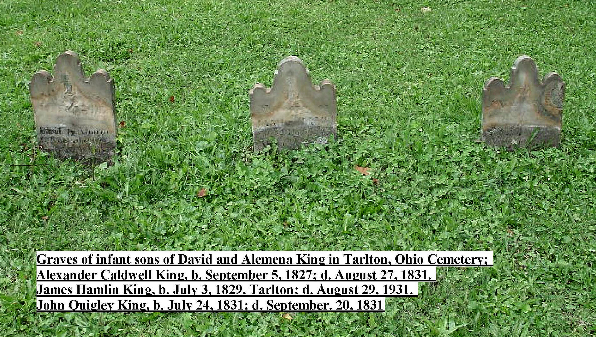 Photo I took